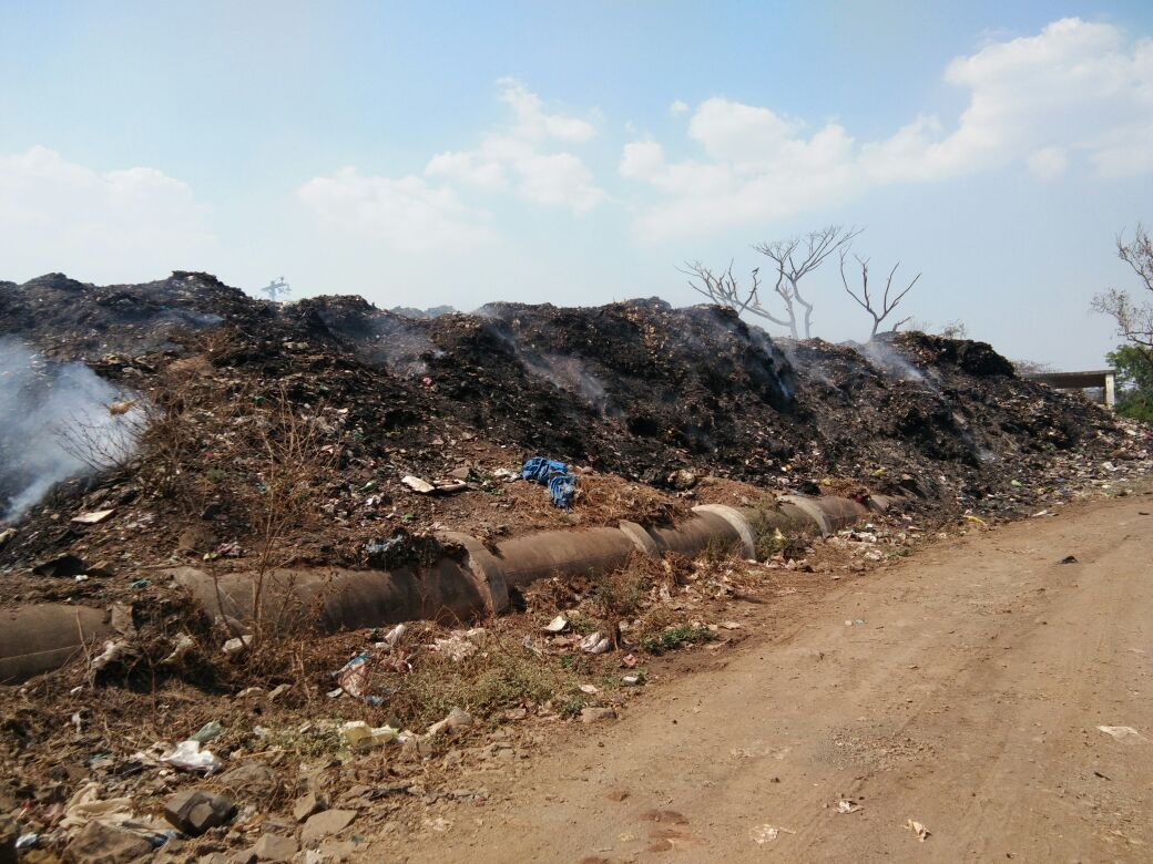 solid waste